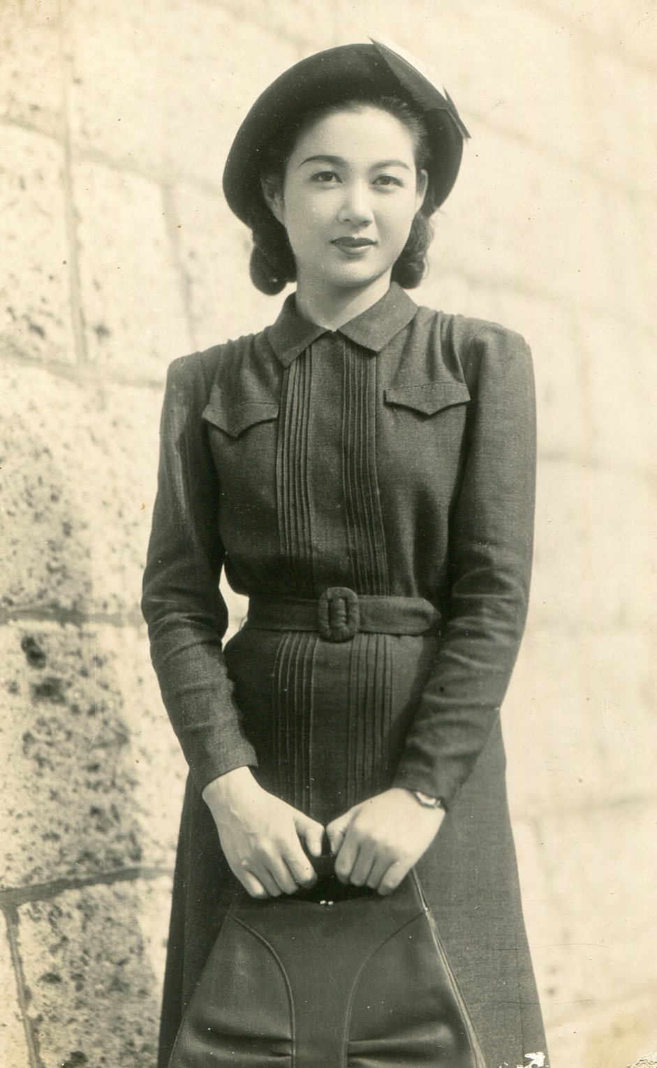 Portrait of the actress Michiko Kuwano (1930s-1940s)